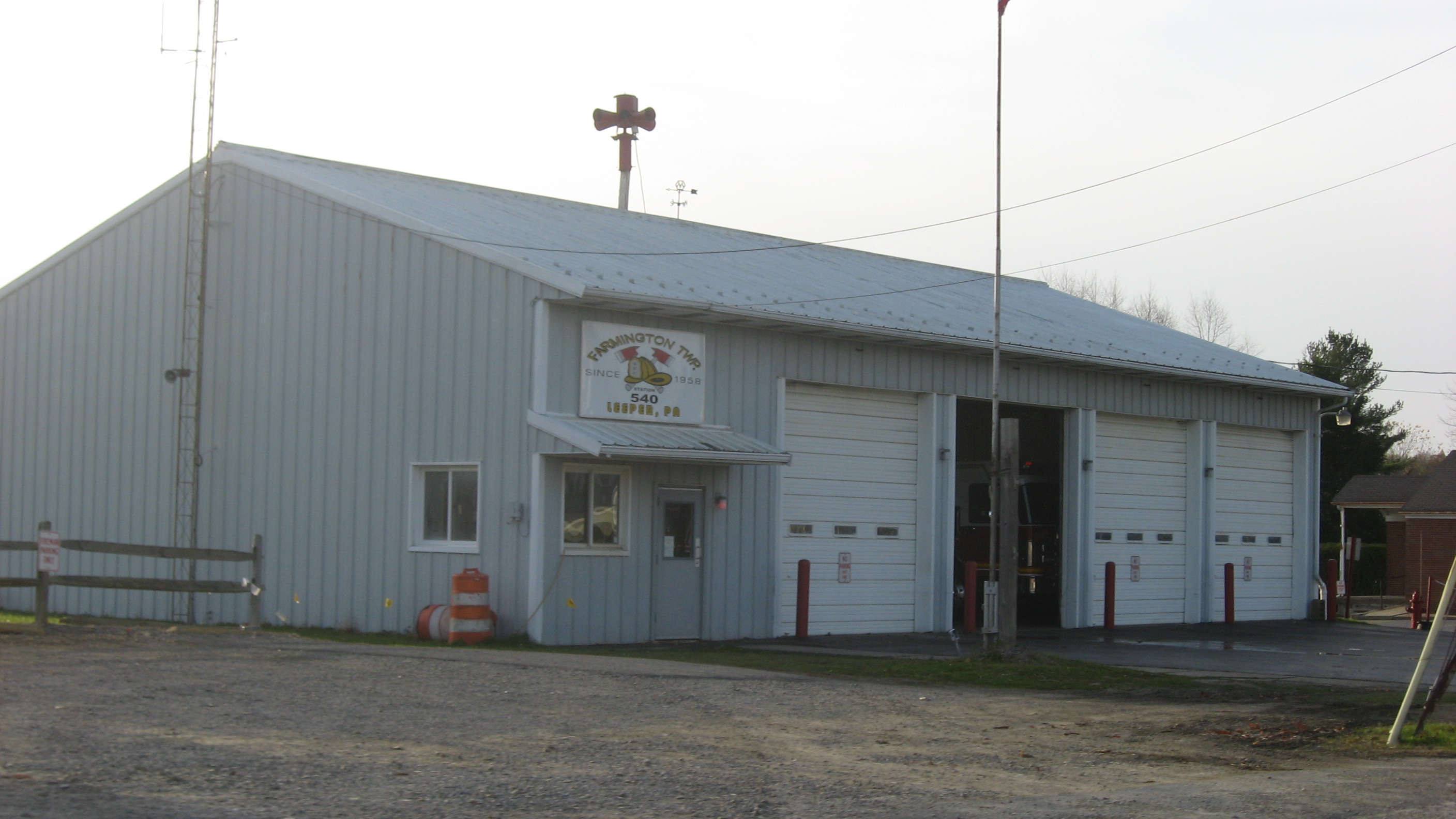 Front of the Farmington Township fire hall, located on Pennsylvania Route 36 in Leeper, Pennsylvania, United States.